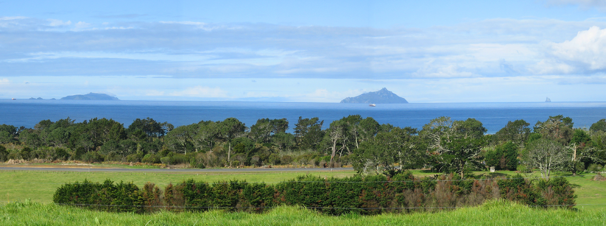 Panorama of the Hen and Chicken Islands and Sail Rock - Bream Bay, Northland, New Zealand.